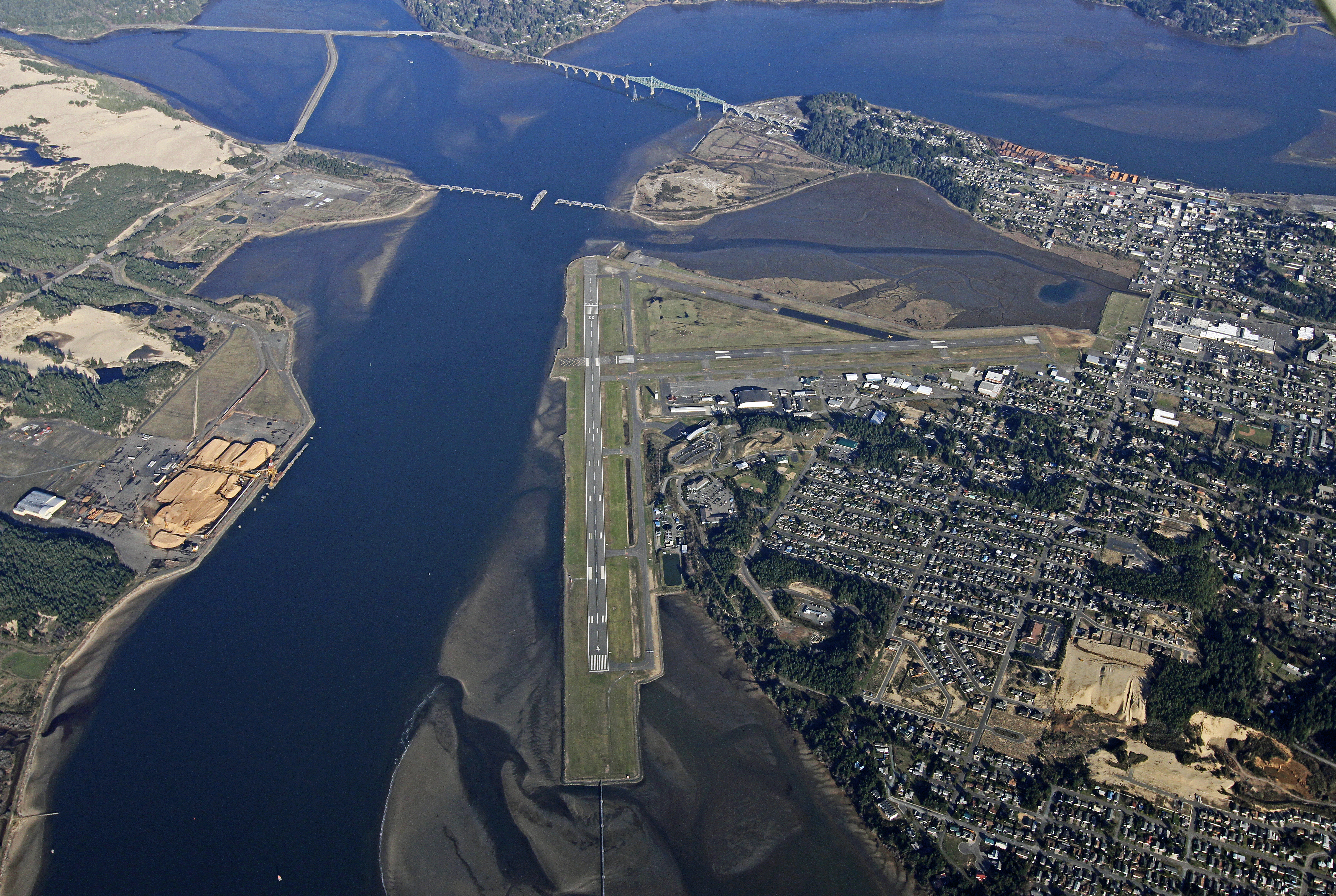 Aerial of Coos Bay